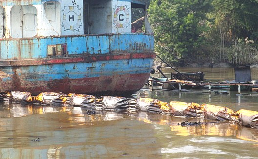 The oil Tank